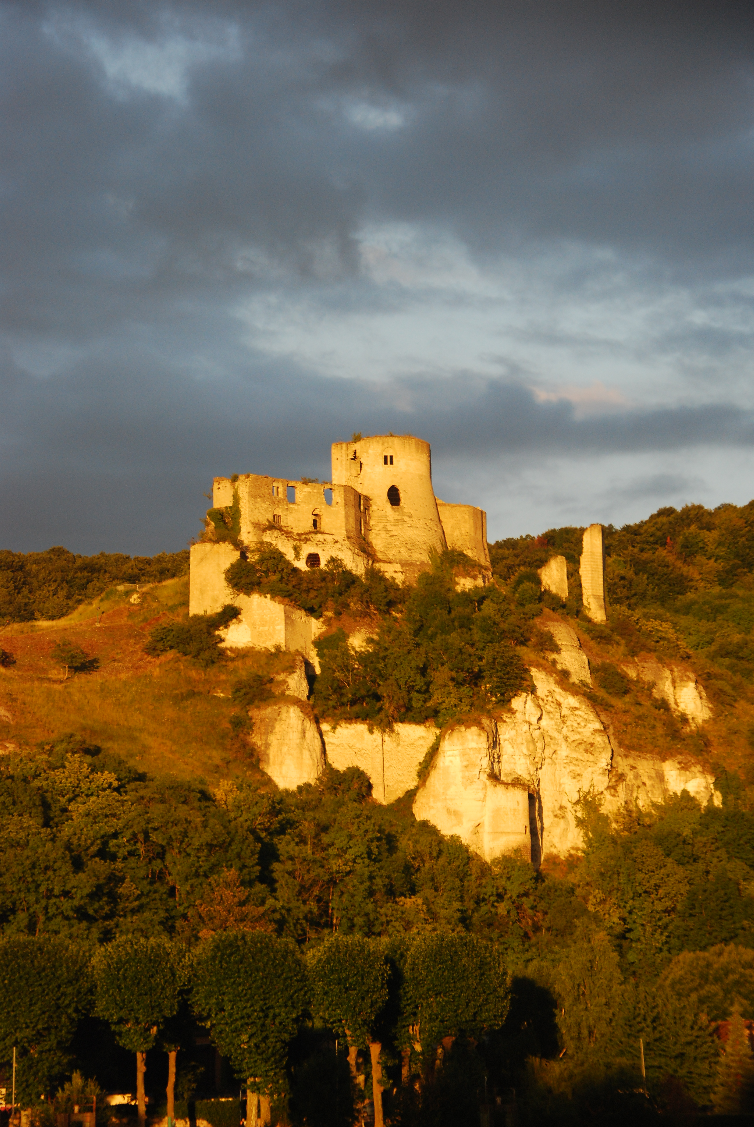 Château-Gaillard, north-western aspect